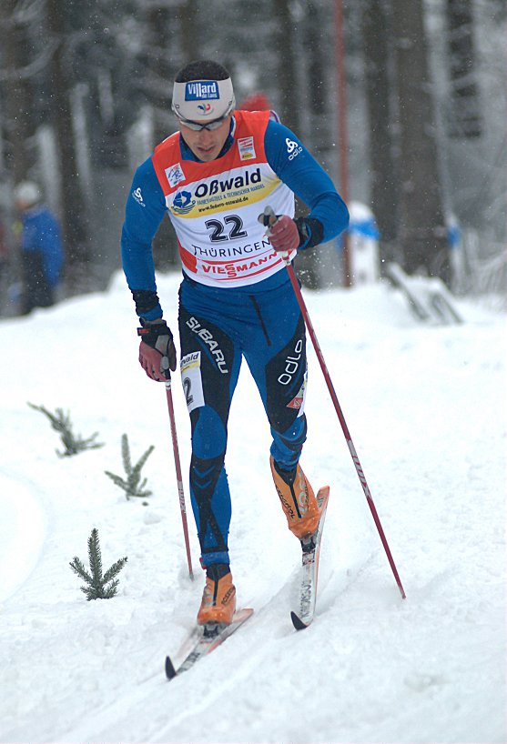 Robin Duvillard at the Tour de Ski 2010 in Oberhof